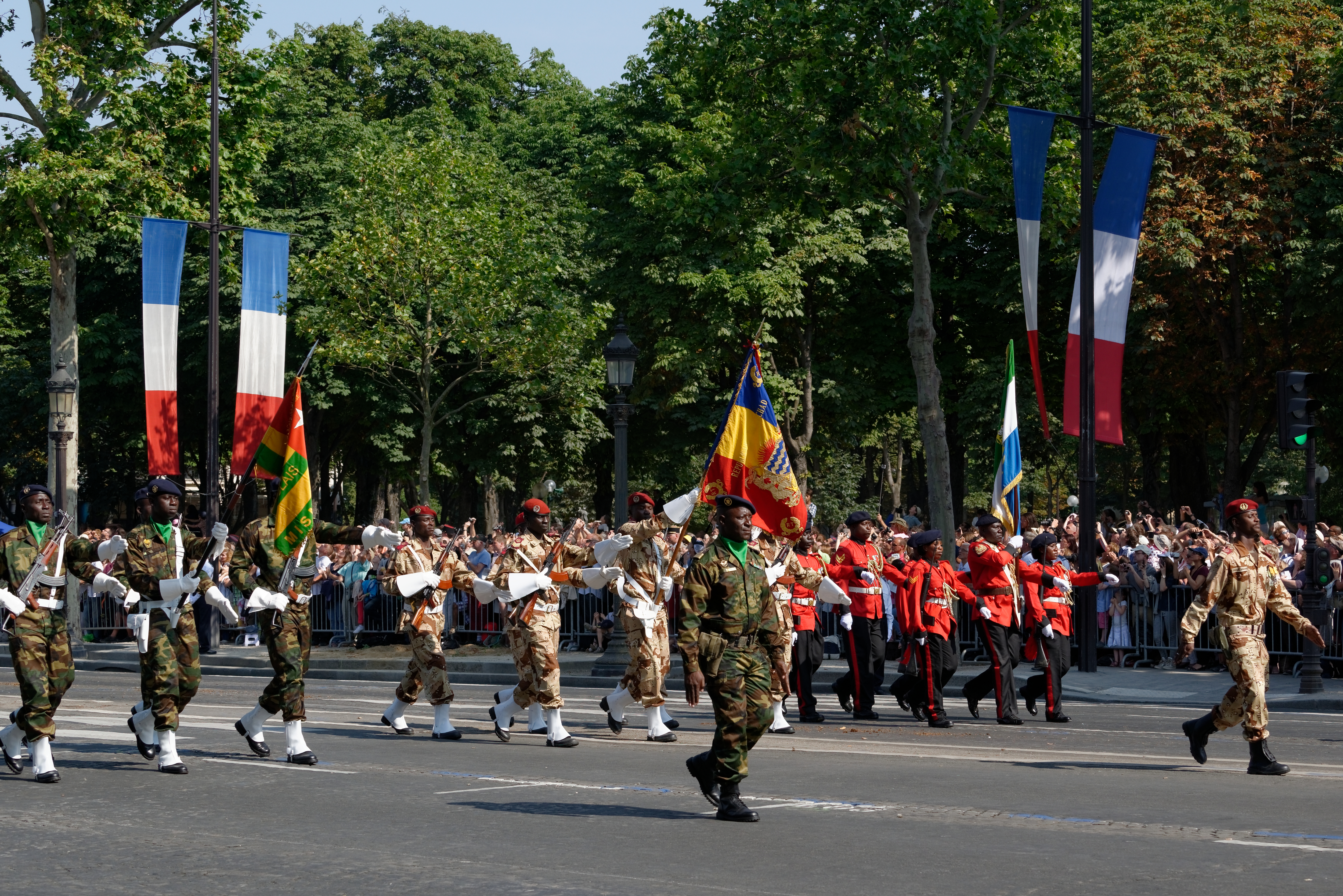 From left to right, colour guards of Togo, Chad and Sierra Leone, members of AFISMA, in the Bastille Day 2013 military parade on the Champs-Élysées in Paris.